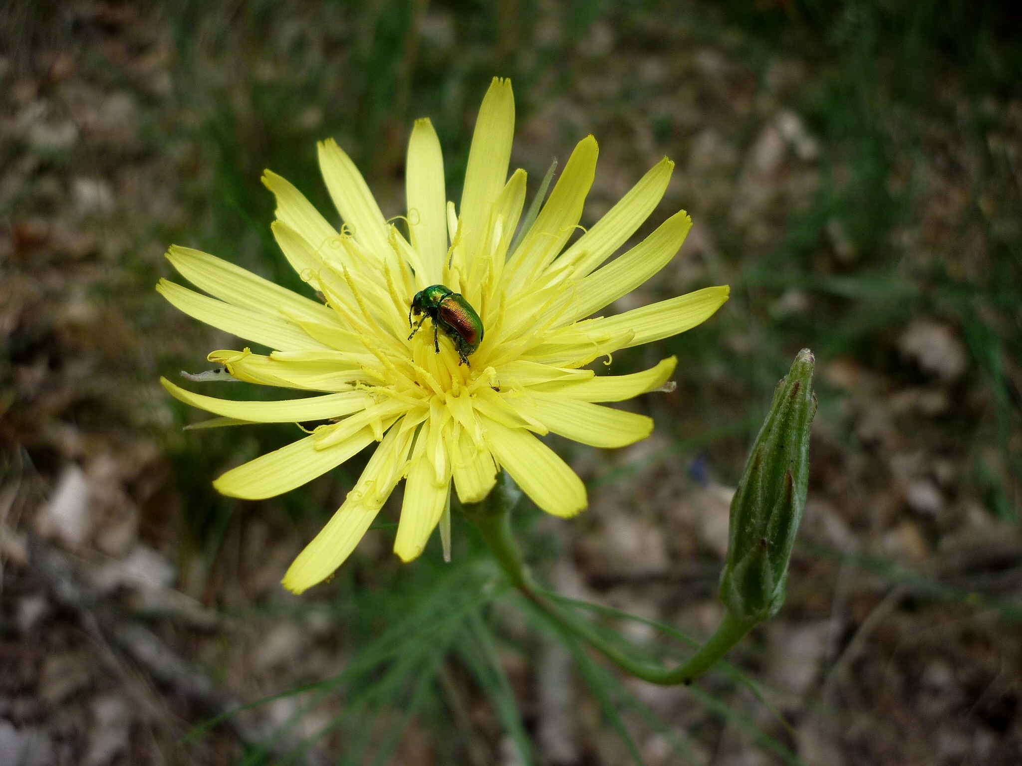 Scorzonera angustifolia. In Torà (Segarra- Catalunya). On 580 m. altitude